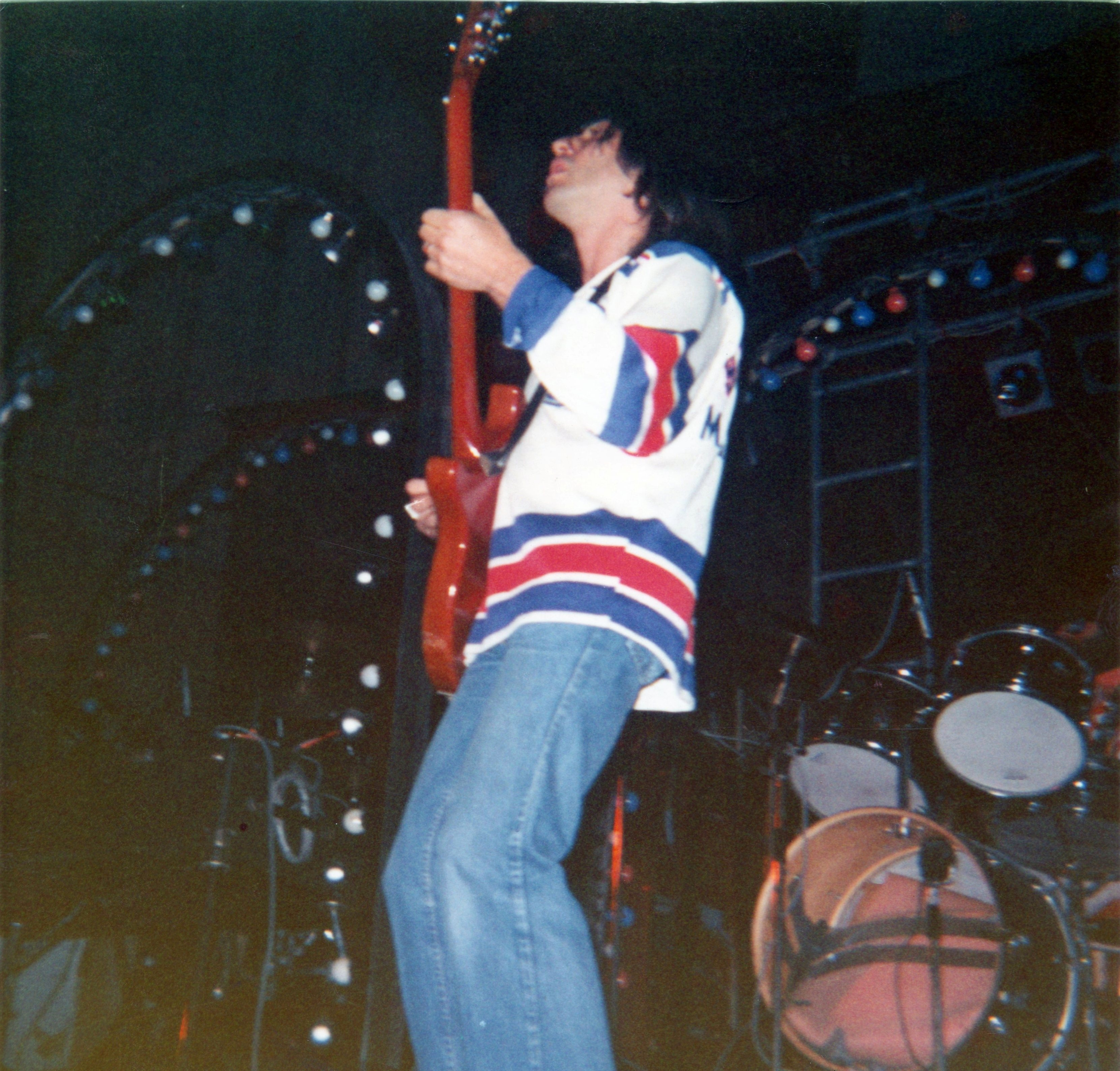 This photograph was taken by myself of Lol Creme.'Guitarist and composer' of the seventies rock band 10cc. It was taken during the Bands highly successful Sheet Music album concert tour of 1974. The venue was the Free Trade Hall in Manchester England.